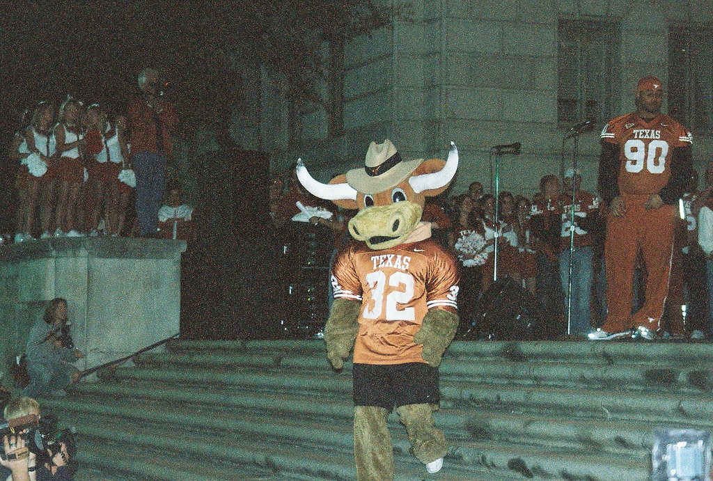 Hook 'em mascot @ Texas Hex Rally Nov. 2005